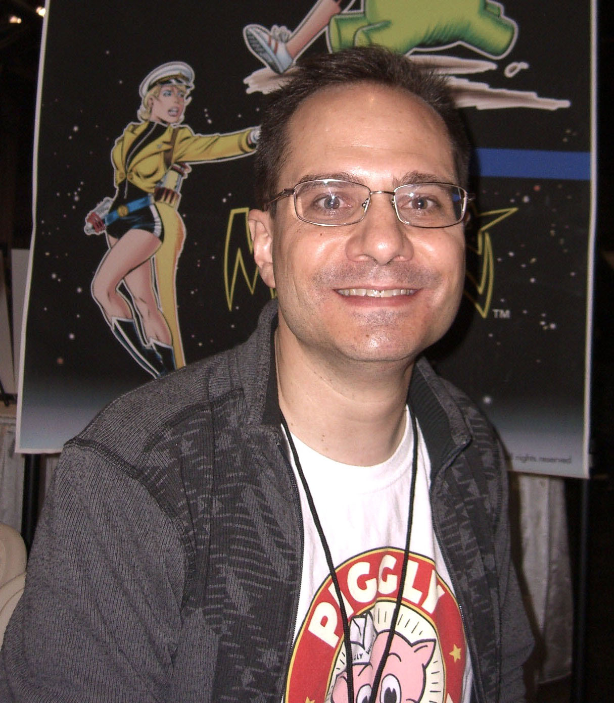 Comic book creator Andrew Pepoy, at the New York Comic Convention in Manhattan, October 9, 2010. Photo by Luigi Novi. This photo may be used, modified and published for any purpose, only if a easily visible credit to the photographer is placed near the photo in each instance in which it is used. (See licensing information below.) Publication of this photo without this proper attribution constitute copyright infringement. For more information on my photos, you can contact me here.